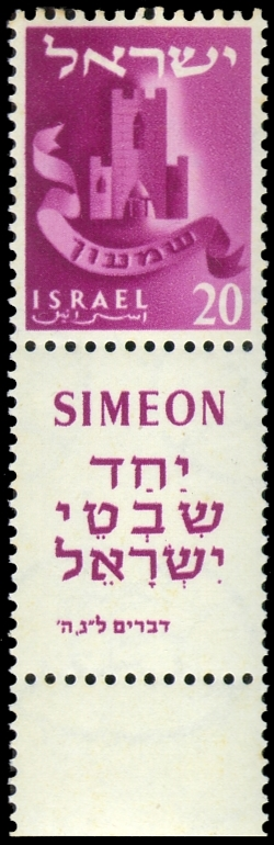 Tribes stamp - 20 mil - Simeon. Second definitive series. Inscription on tab: "...and the tribes of Israel were gathered togather..." Deuteronomy XXXIII, 5.